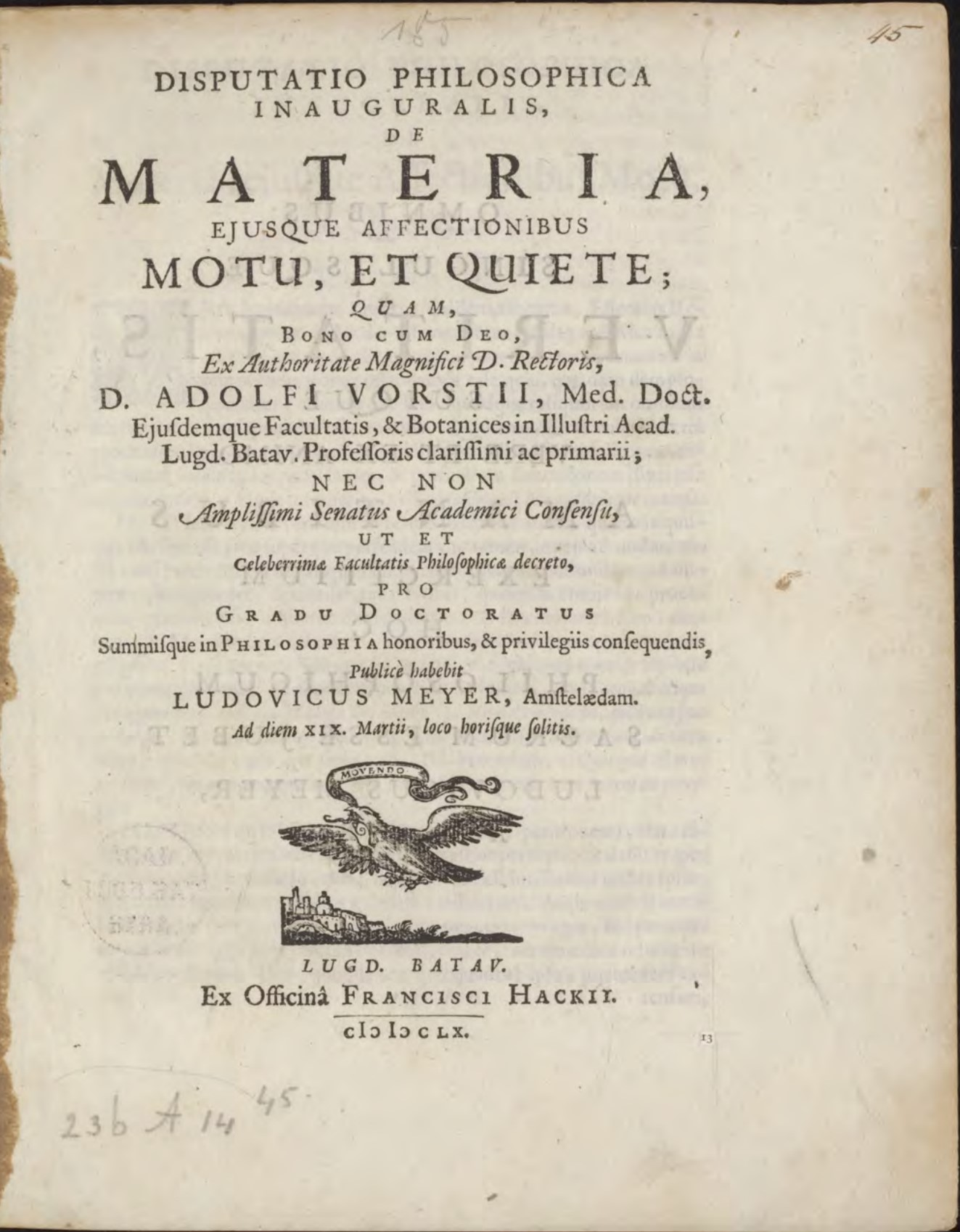 Lodewijk Meyer: De materia, ejusque affectionibus motu, et quiete, Leiden, 1660. University dissertation in Latin. Title page.